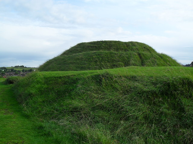 Dromore Mound Sixty feet high and six-hundred in circumference - the well preserved Motte and Bailey is thought to have been been built by William De Courcy at the time of the Norman conquest.